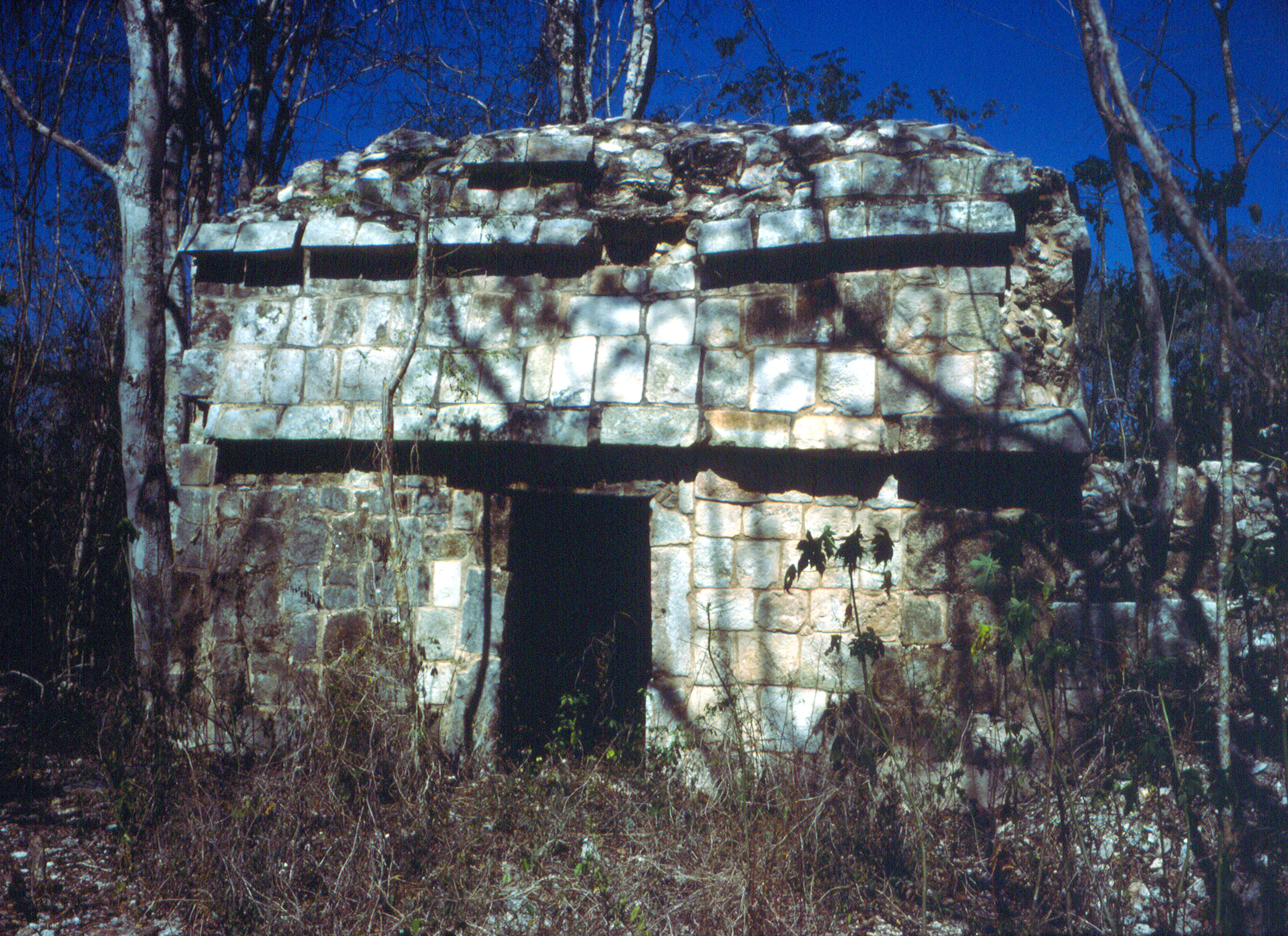 Sayil, Yucatan, Mexico: Structure 1B2.